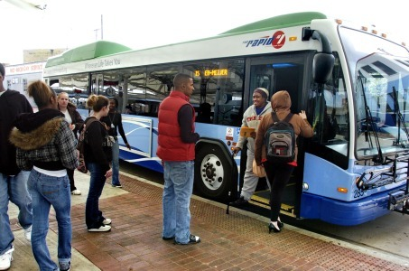 The Rapid